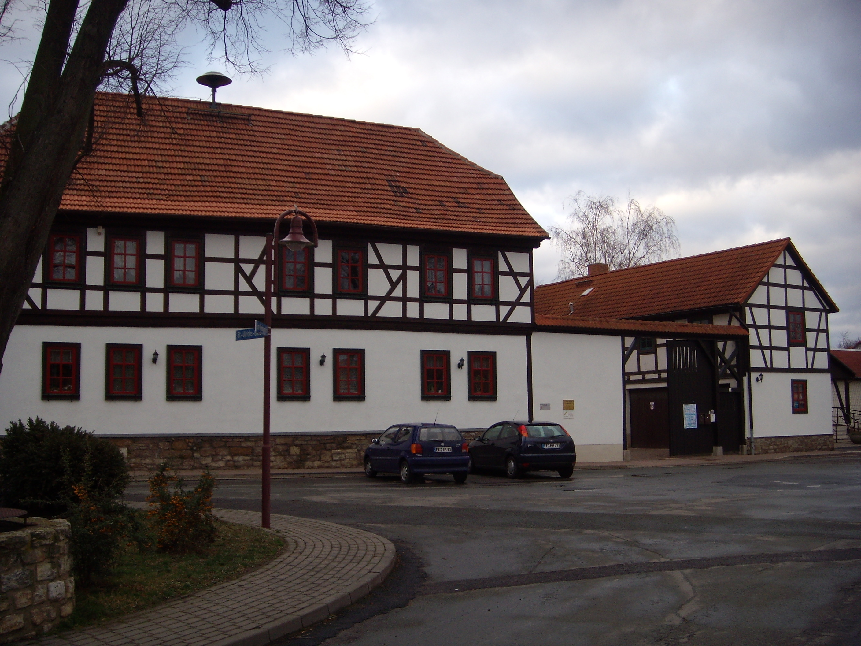 Communehouse of the village Alach.